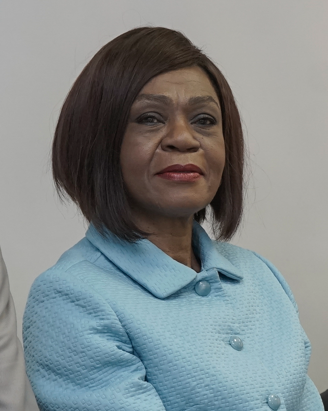 09 de noviembrede 2017 - Rueda de prensa de la asambleísta Mae Montaño Tema: Proyecto de reformas a la Ley de Discapacidades Fotografía por: Alexander Moya / Asamblea Nacional